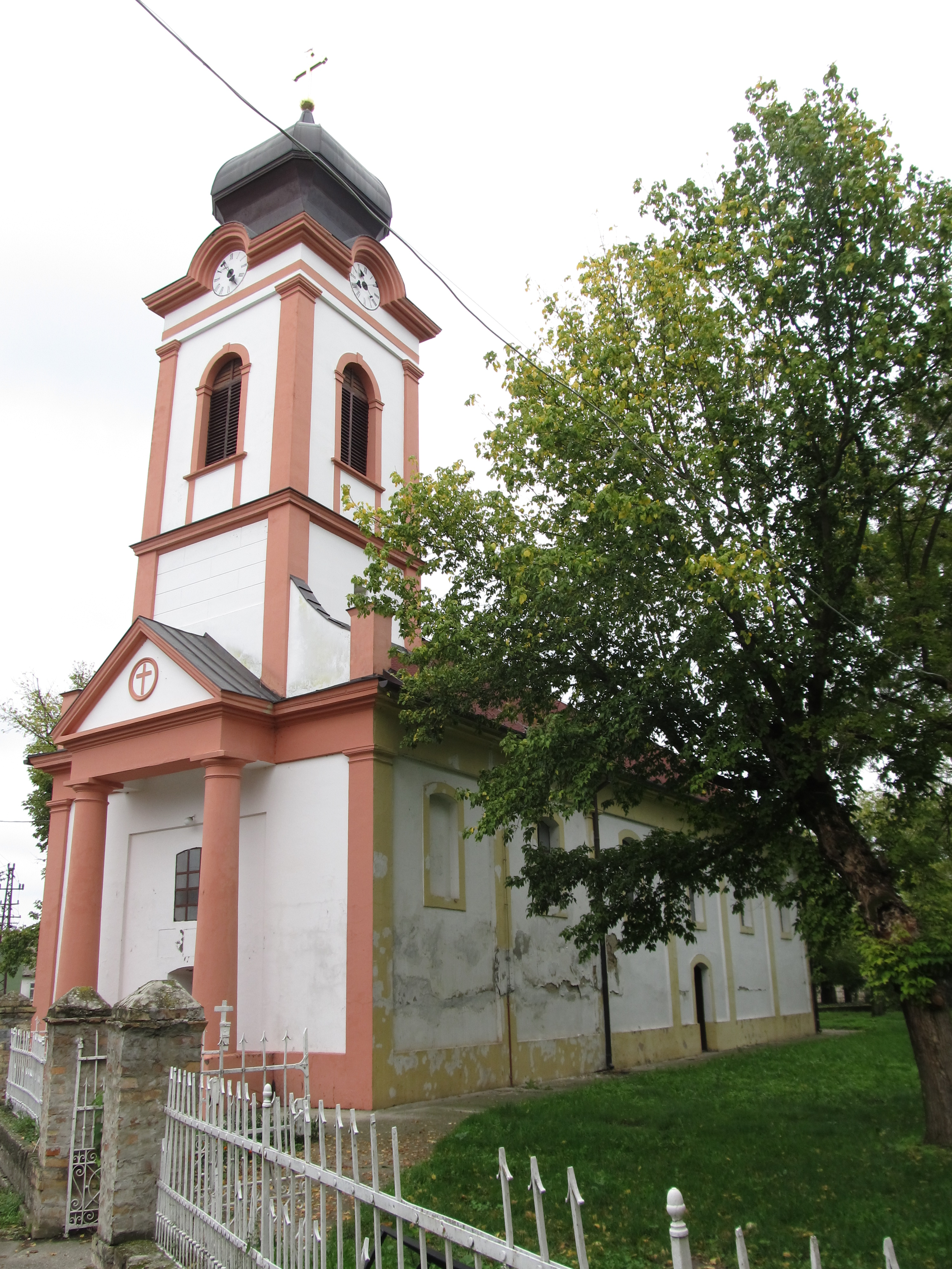 Serbian Orthodox church of Saint Procopius in Srpska Crnja